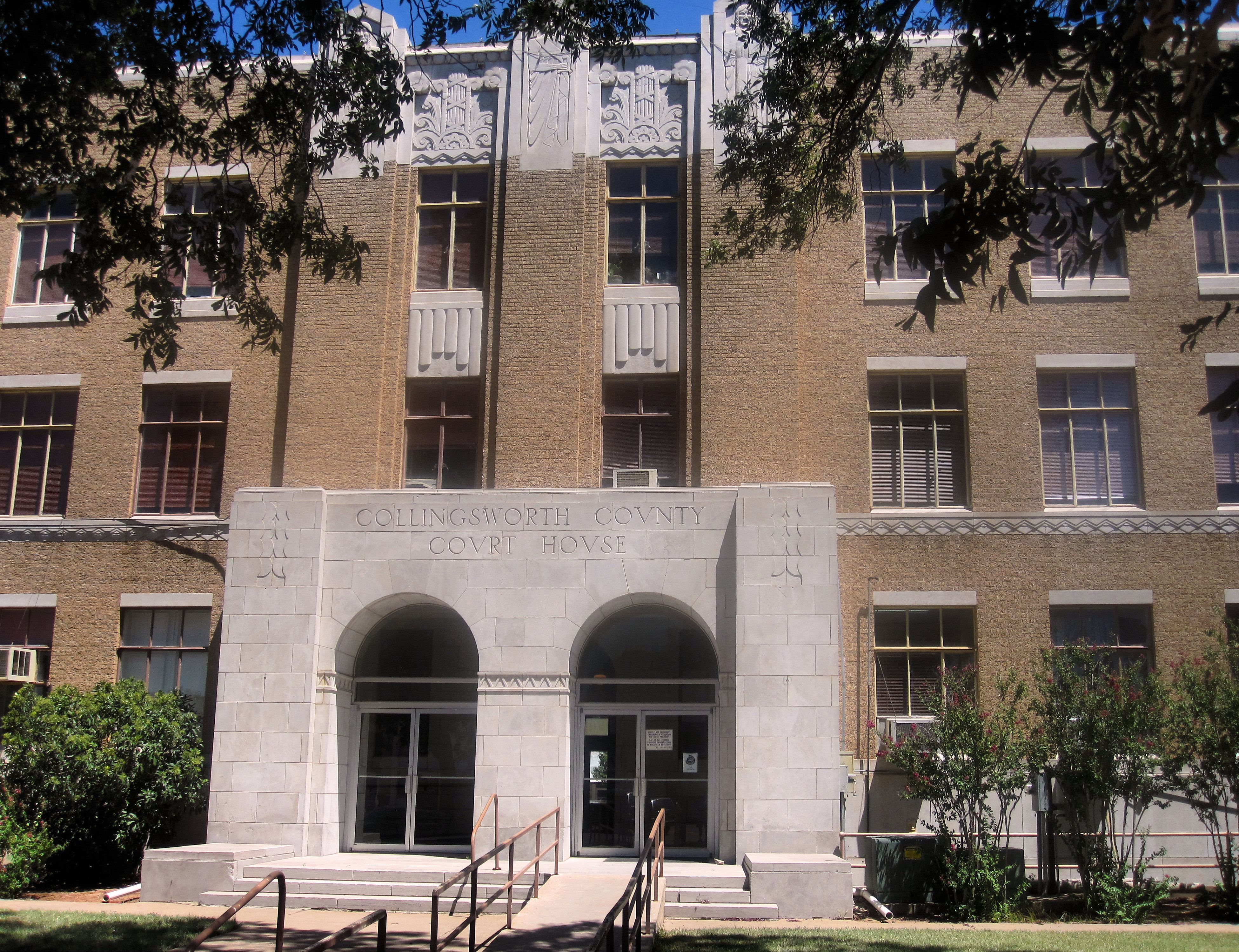 Collingsworth County, Texas Courthouse. I took photo with Canon camera in Collingsworth County, TX.